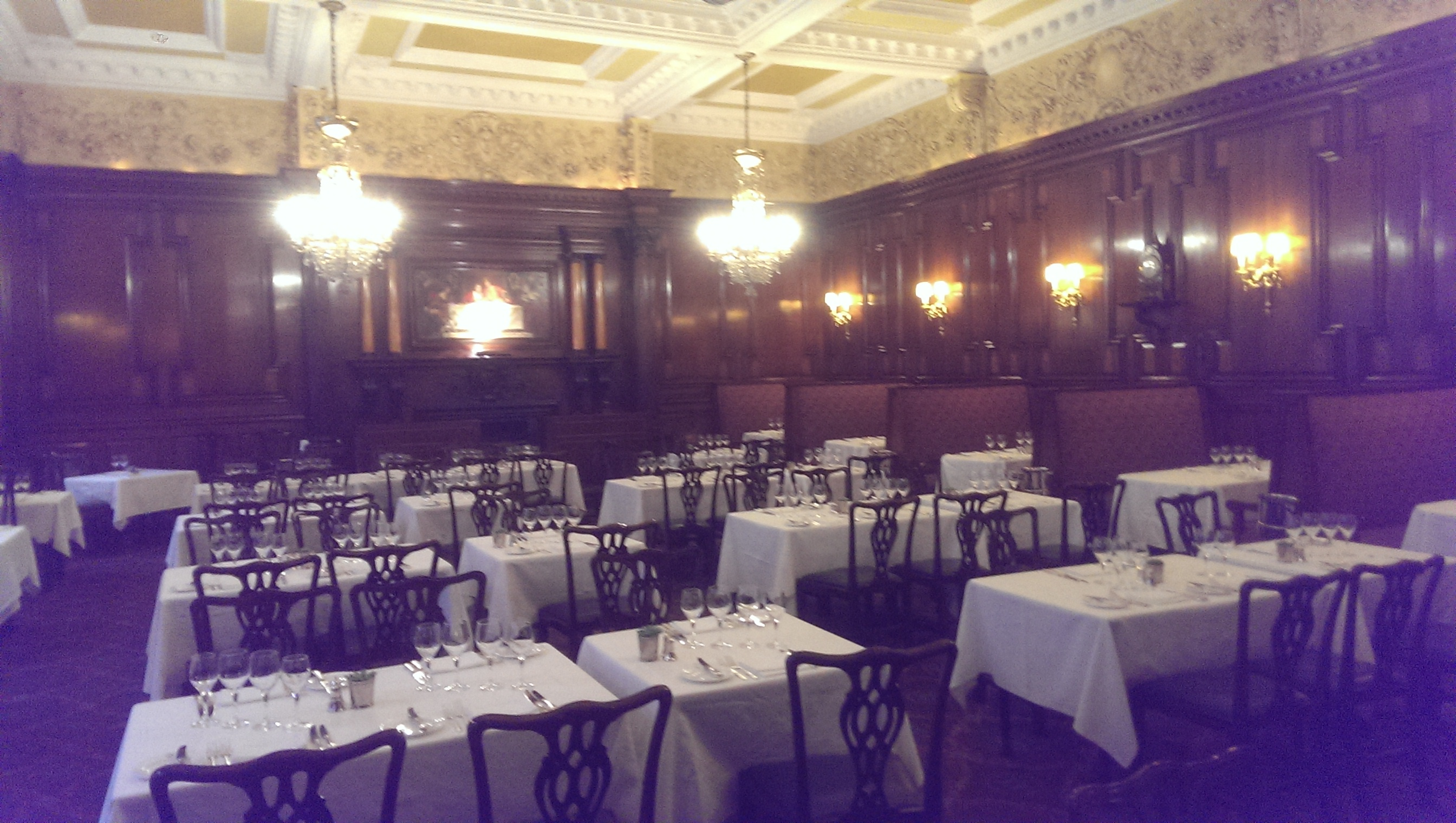 Grand Divan, Simpson's-in-the-Strand, London